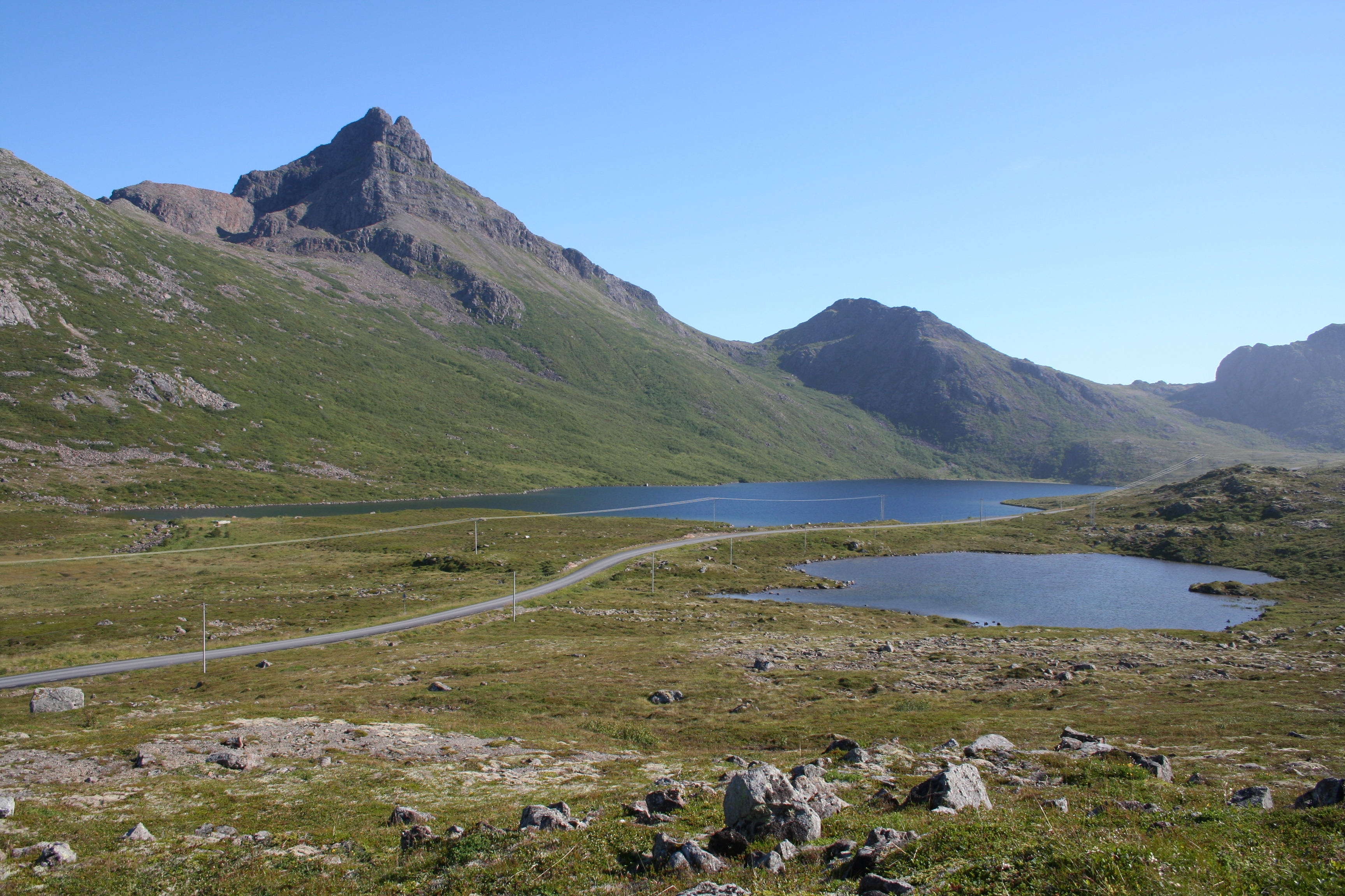 Picture towards fylkesvei 915 in Nordland county, Norway. It is taken in the valley near Nykvåg in Bø municipality.